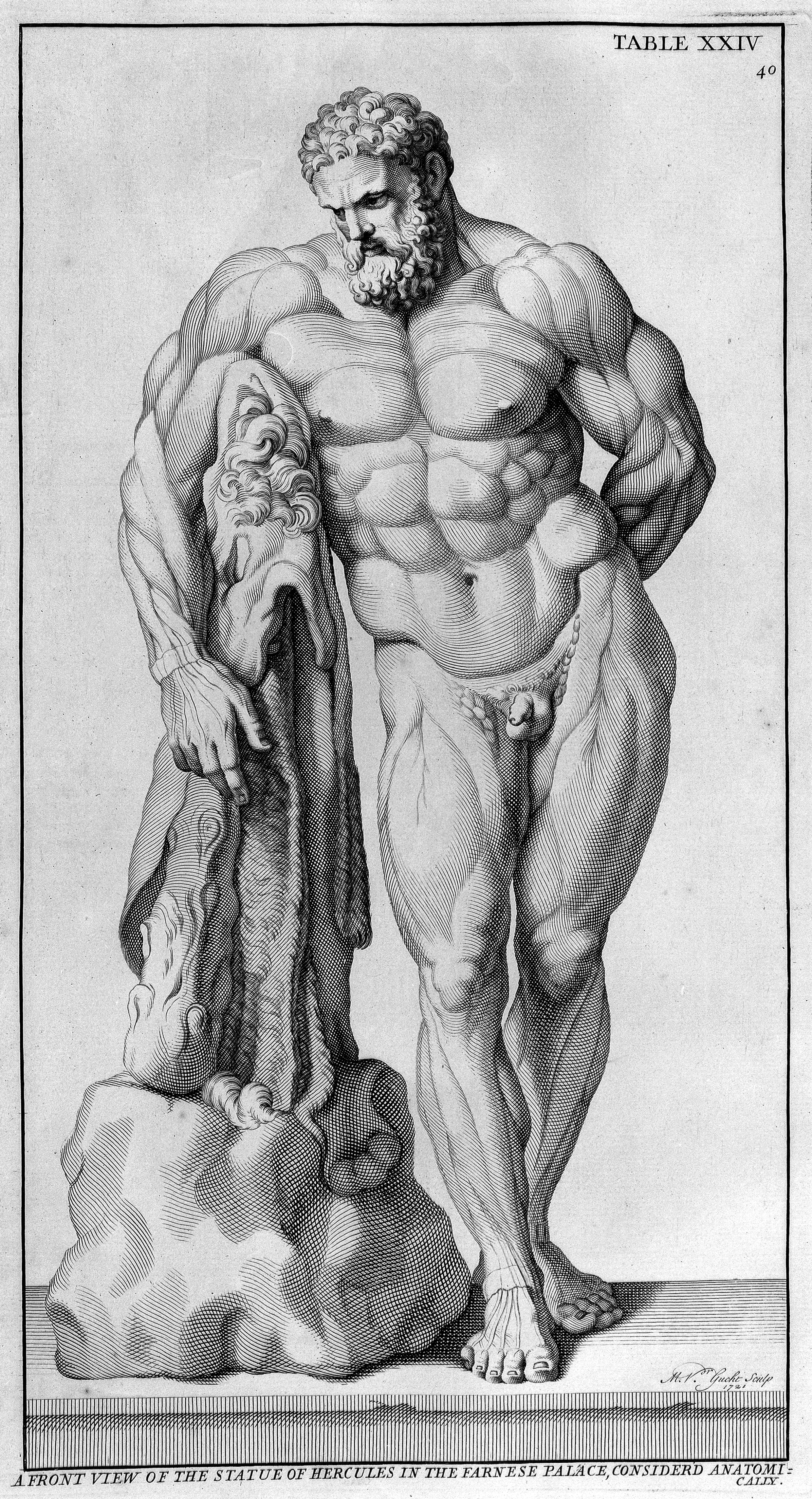 Illustration of the statue of Hercules (leaning against a tree stump) in the Farnese Palazzo in Rome. Signed and dated 1721 Original Negative is a Vinegar Negative CAN NOT BE RESCANNED Rare Books Keywords: Anatomy, Artistic; Bernard Genga